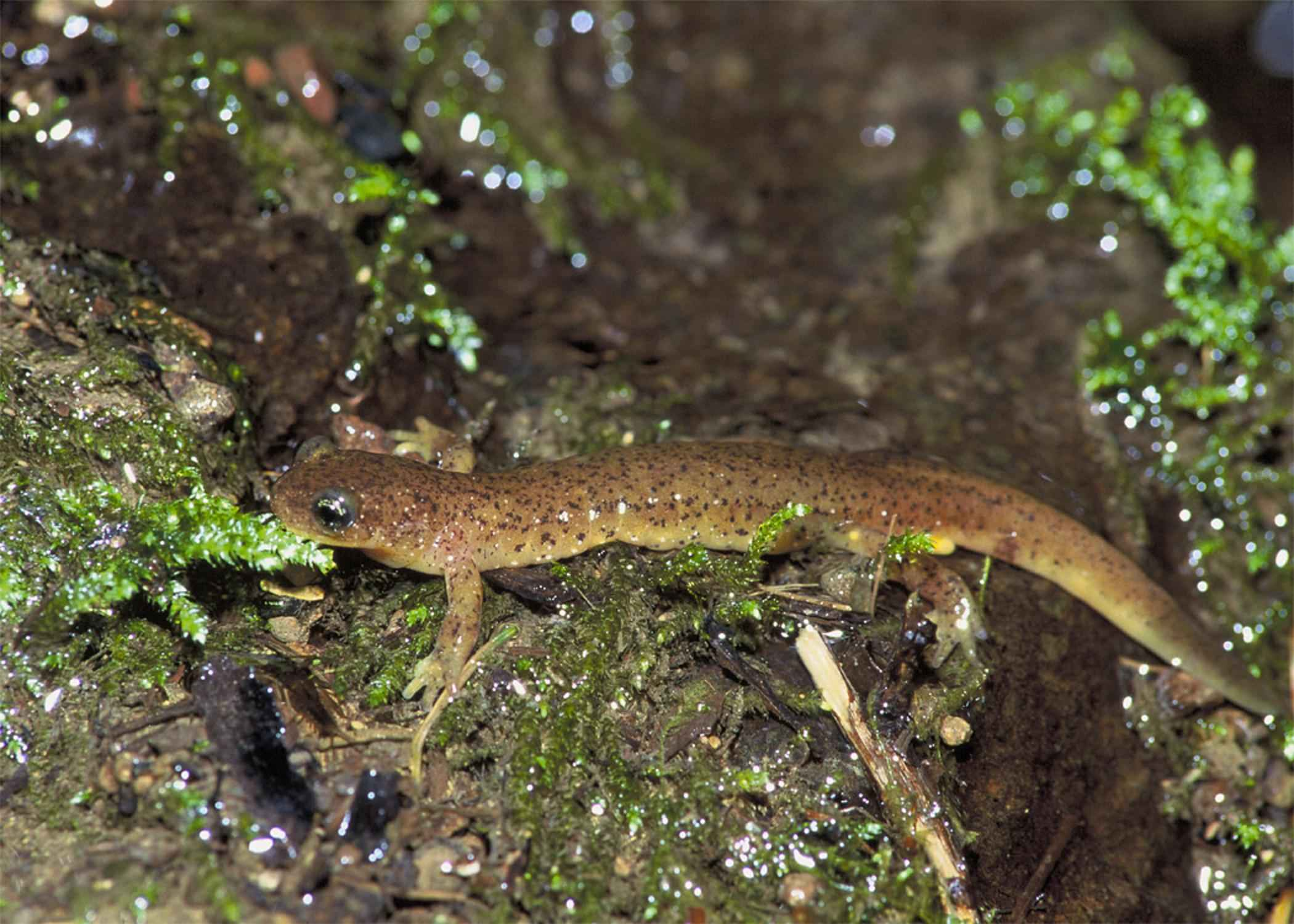 Image title: Olympic salamander Image from Public domain images website